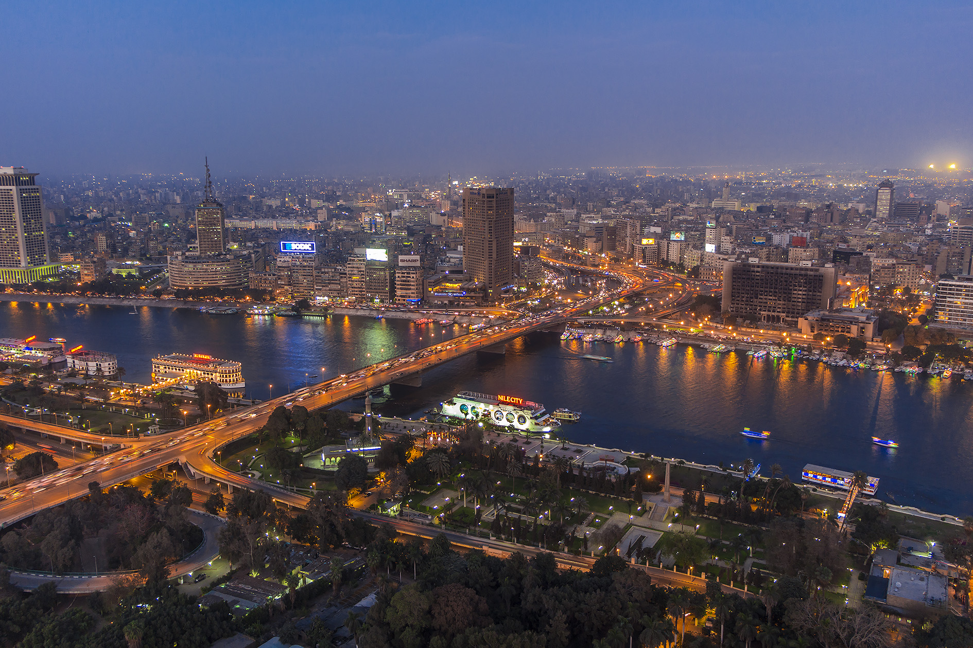 Cairo From Tower